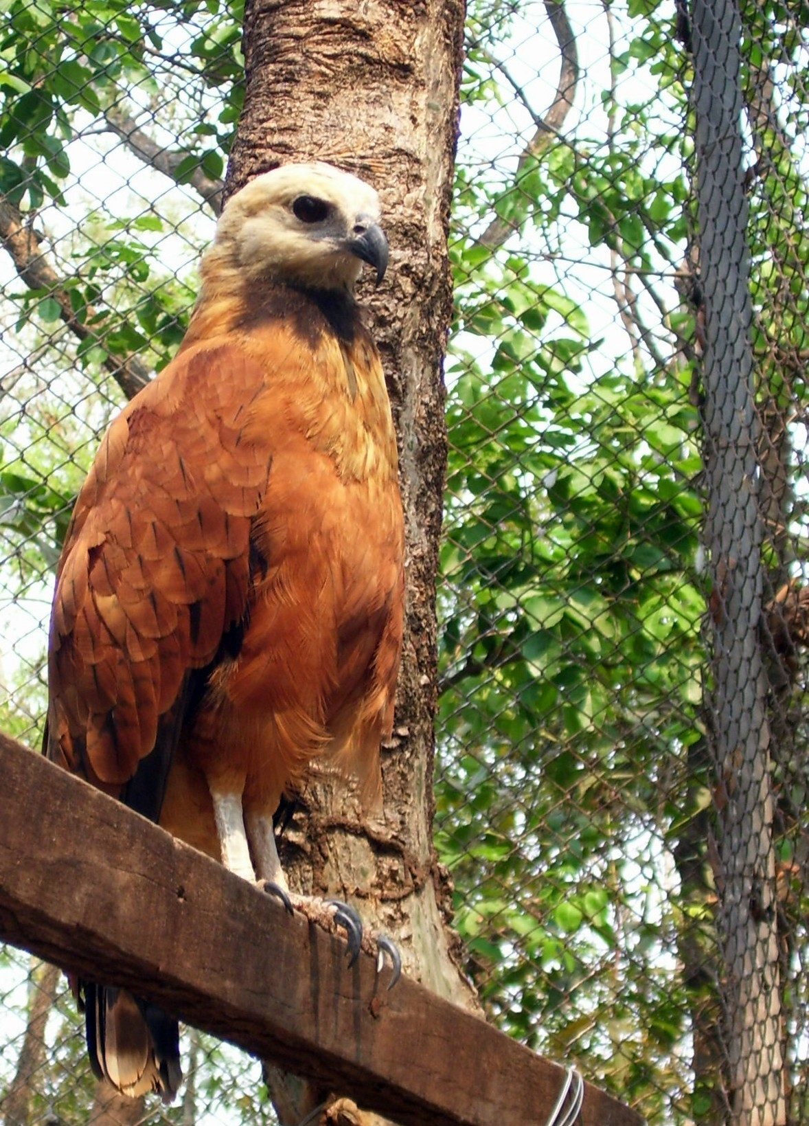 Black-collared Hawk (Busarellus nigricollis), in the zoo of Federal University of Mato Grosso, Cuiabá, Brazil.